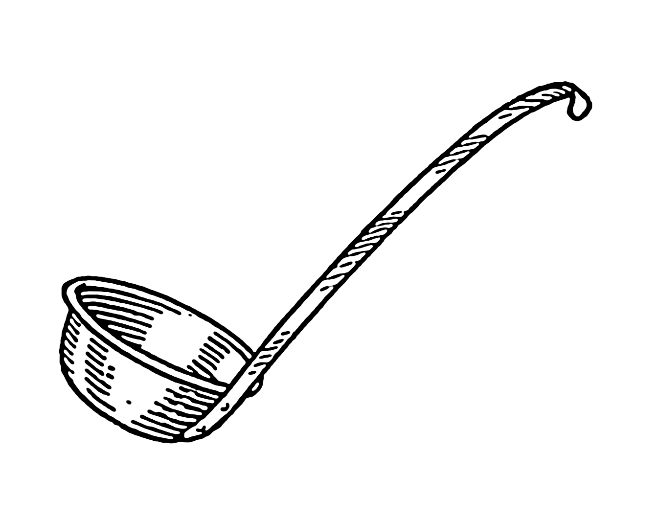 Line art drawing of a dipper.